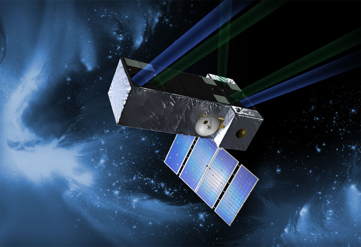 SIM Lite, 2008 concept